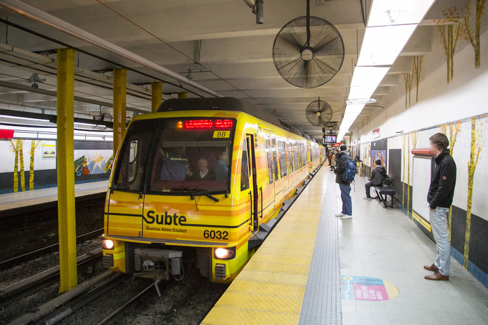 A CAF 6000 train at Dorrego station of the Buenos Aires Underground.